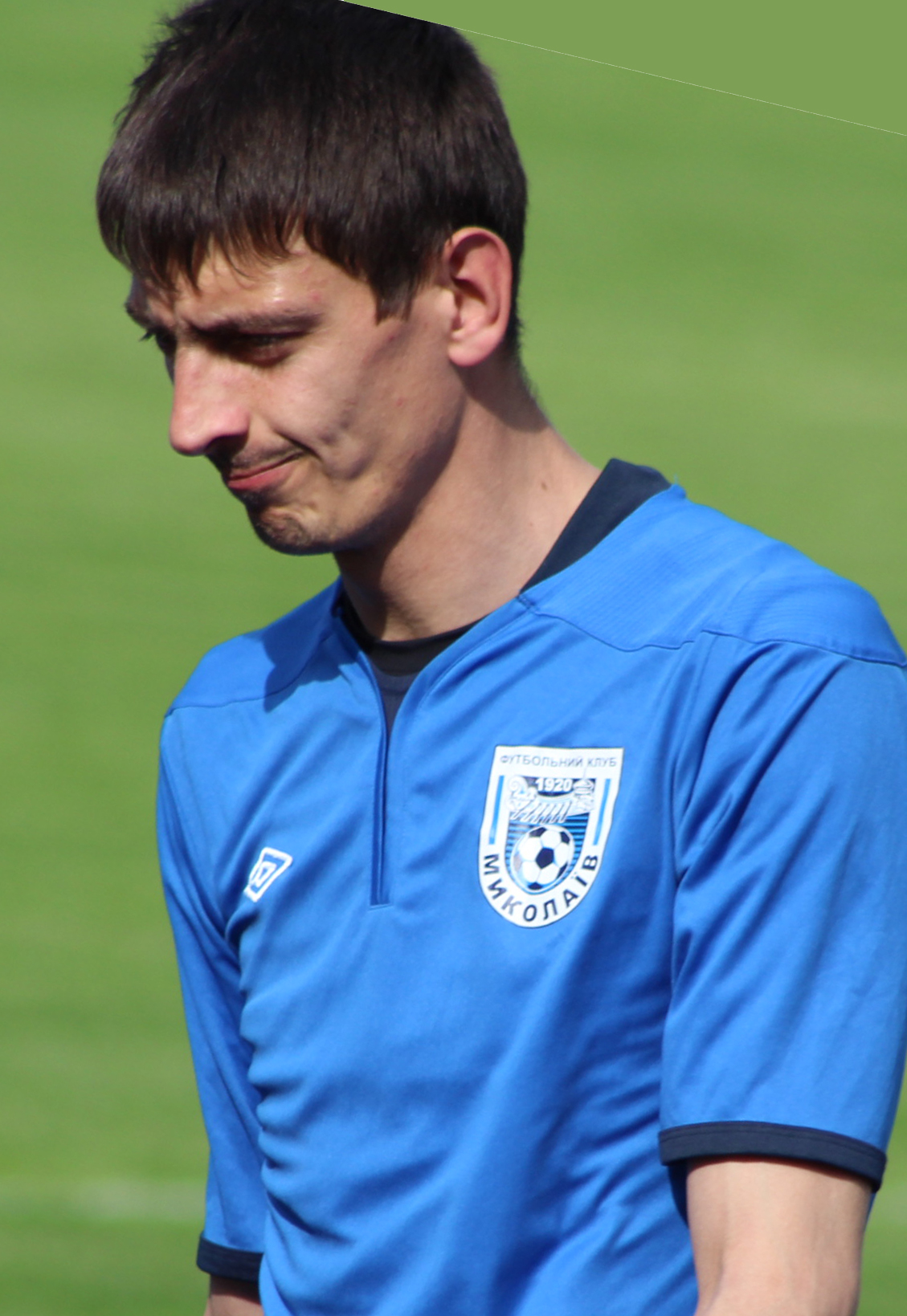 Igor Shylov